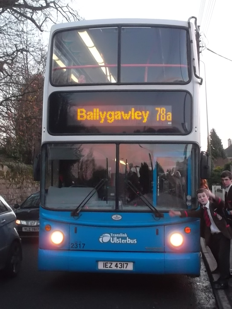 A Volvo B7TL with Alexander Dennis ALX400, doing a school run in Dungannon.